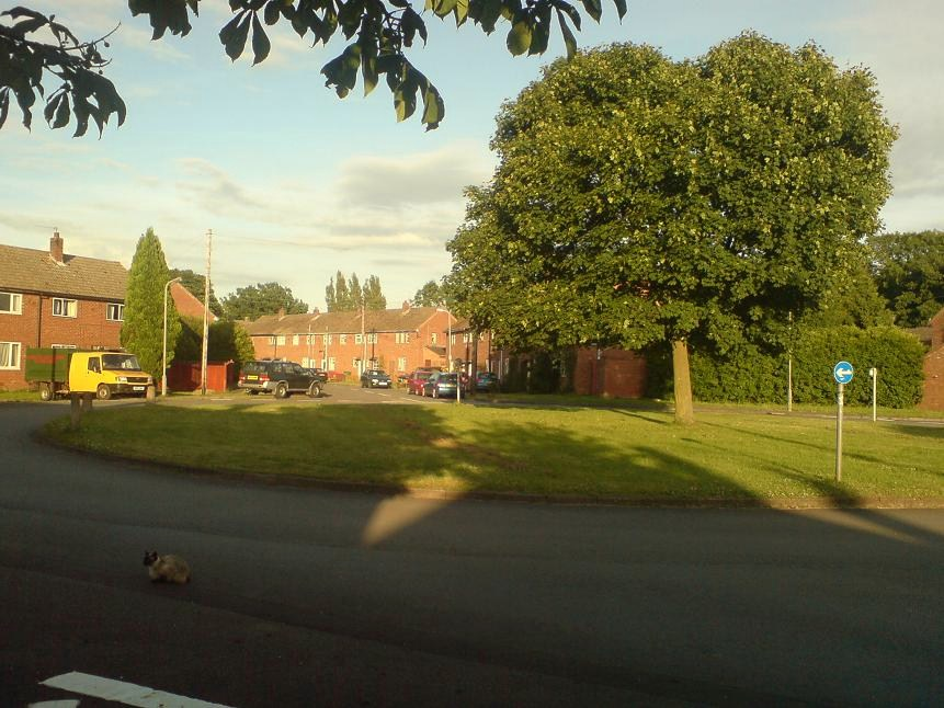 A photograph of Lighthorne Heath, Warwickshire, England